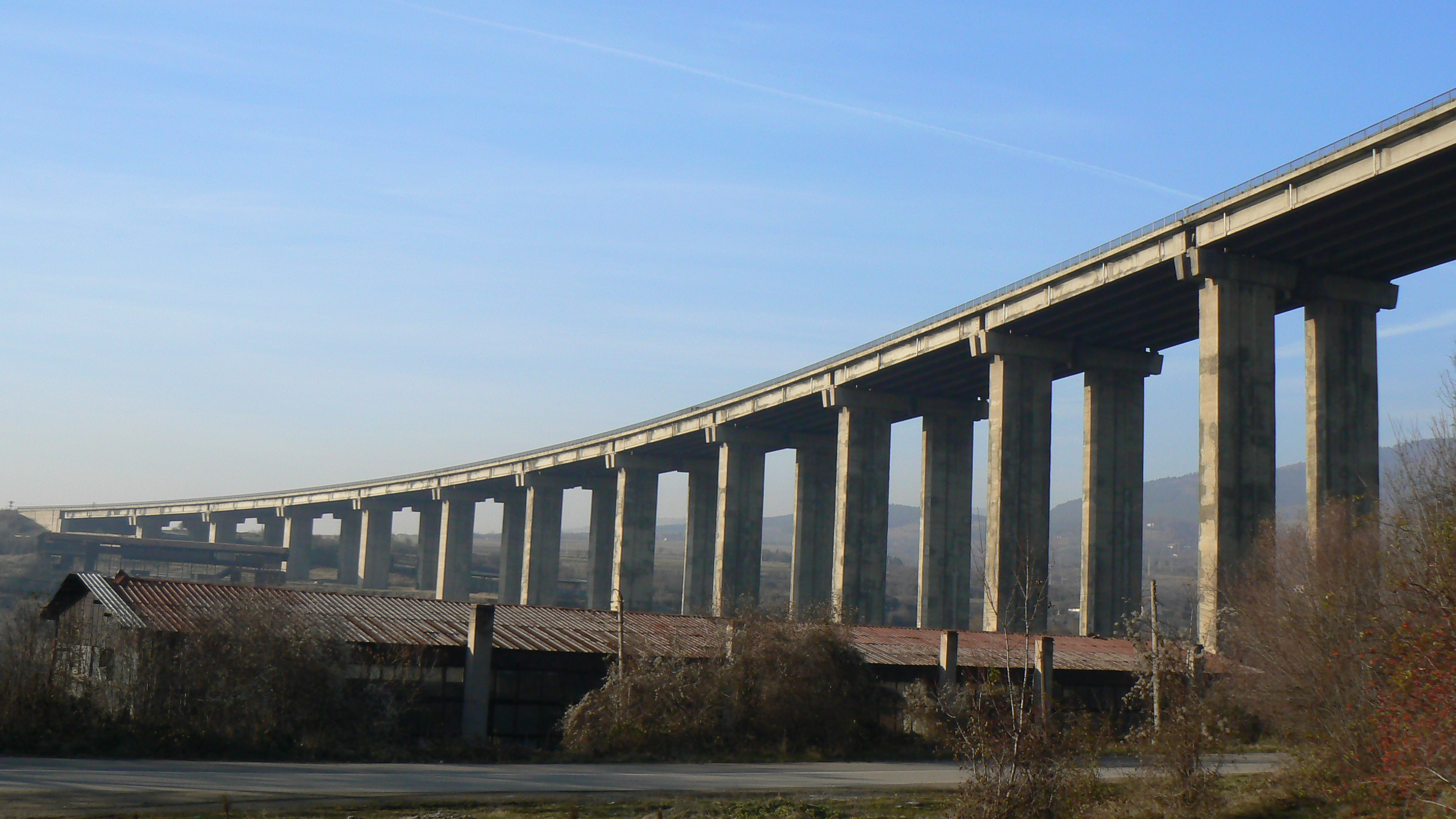 The viaduct of Hemus Highway, over villages Stolnik and Eleshnitsa, Bulgaria